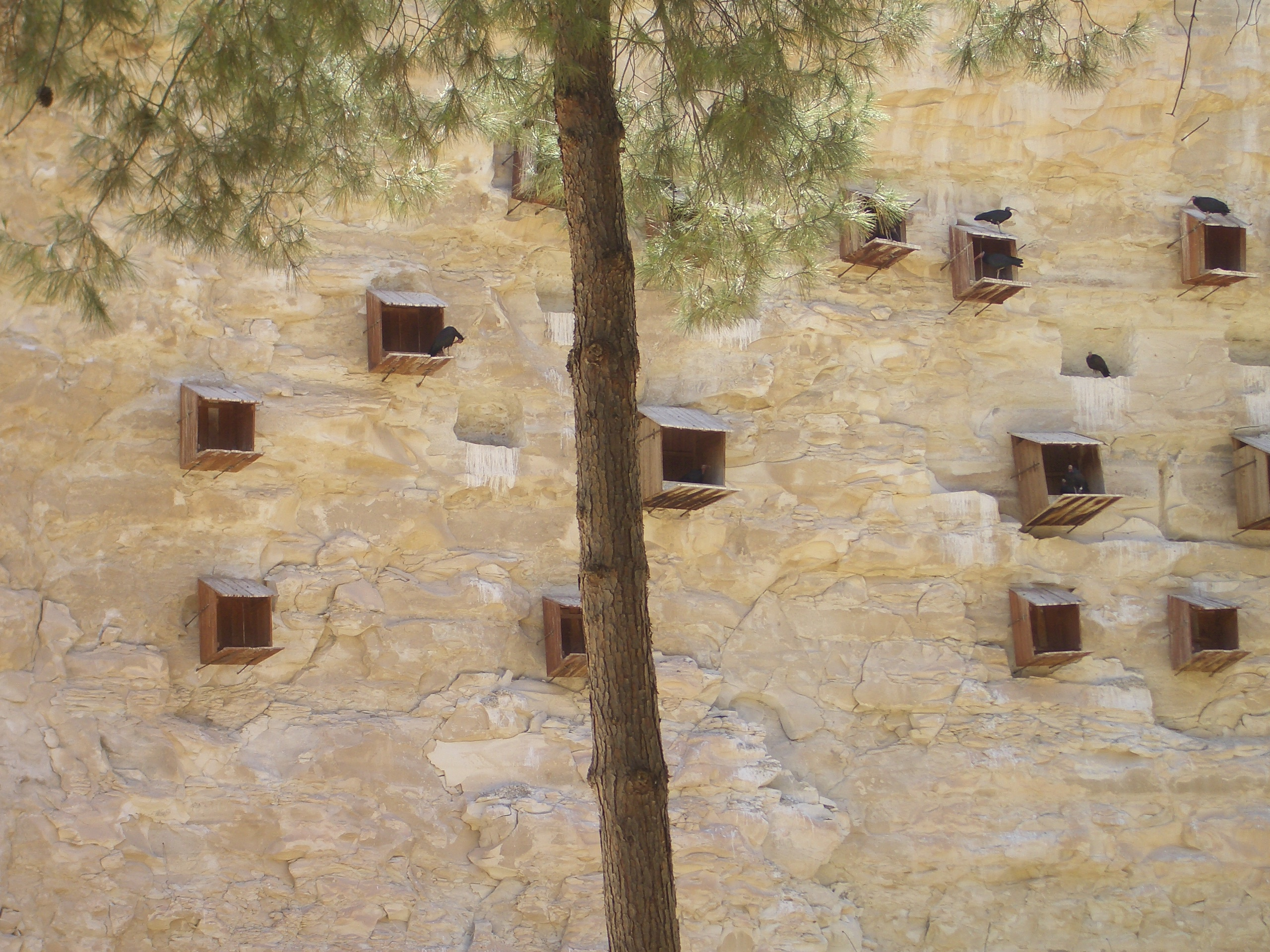 Northern Bald Ibis man-made nest sites at the colony in Birecik, Turkey